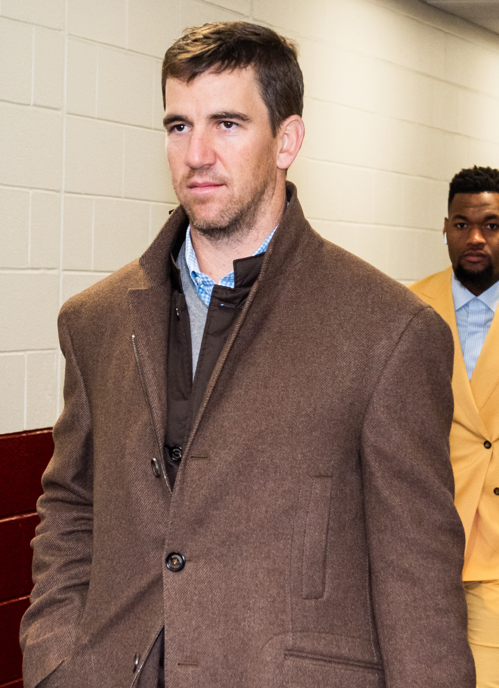 In 2019